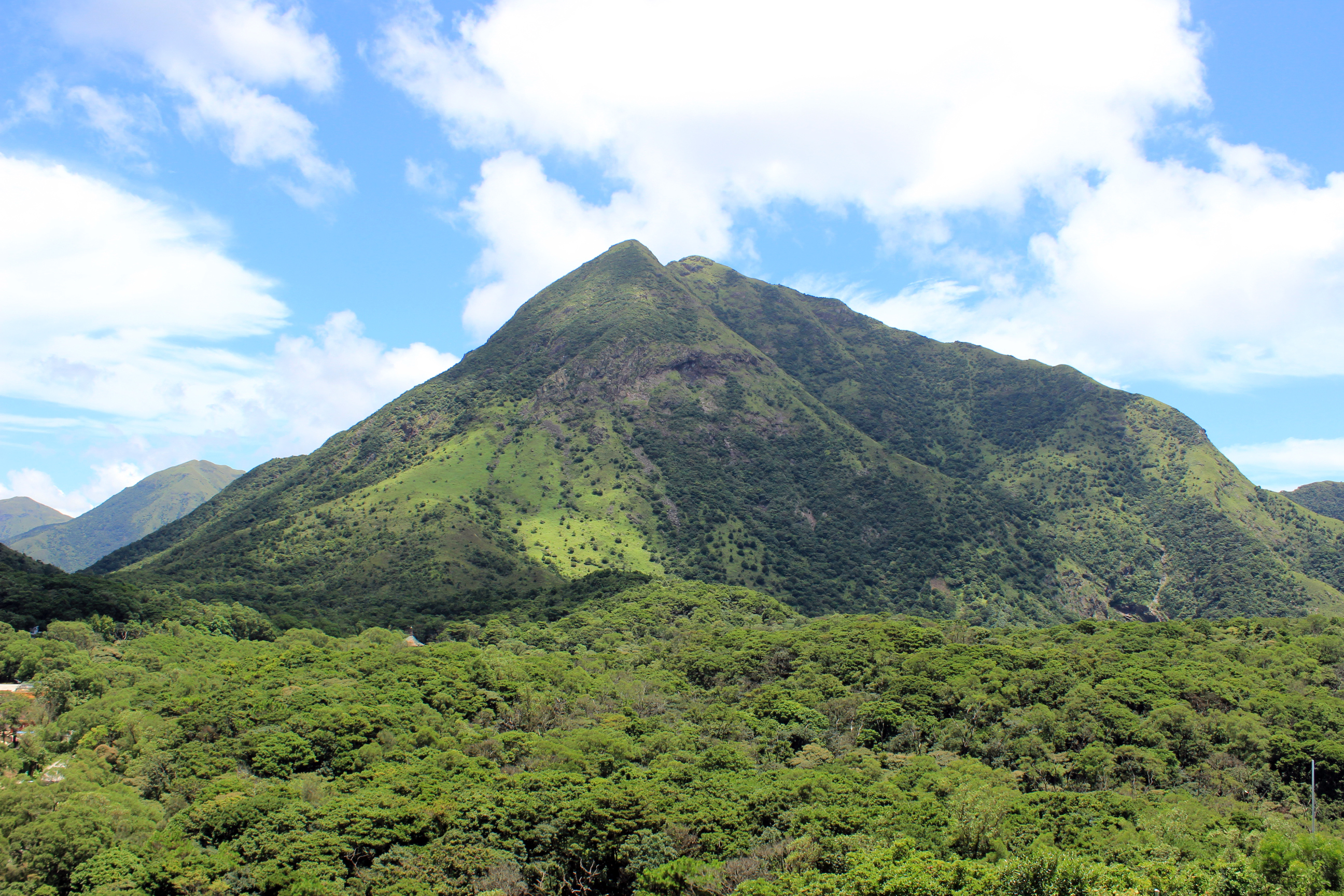 The panorama of Ngong Ping from Tian Tan Buddha